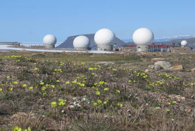 Thule Radar Domes Detachment 3